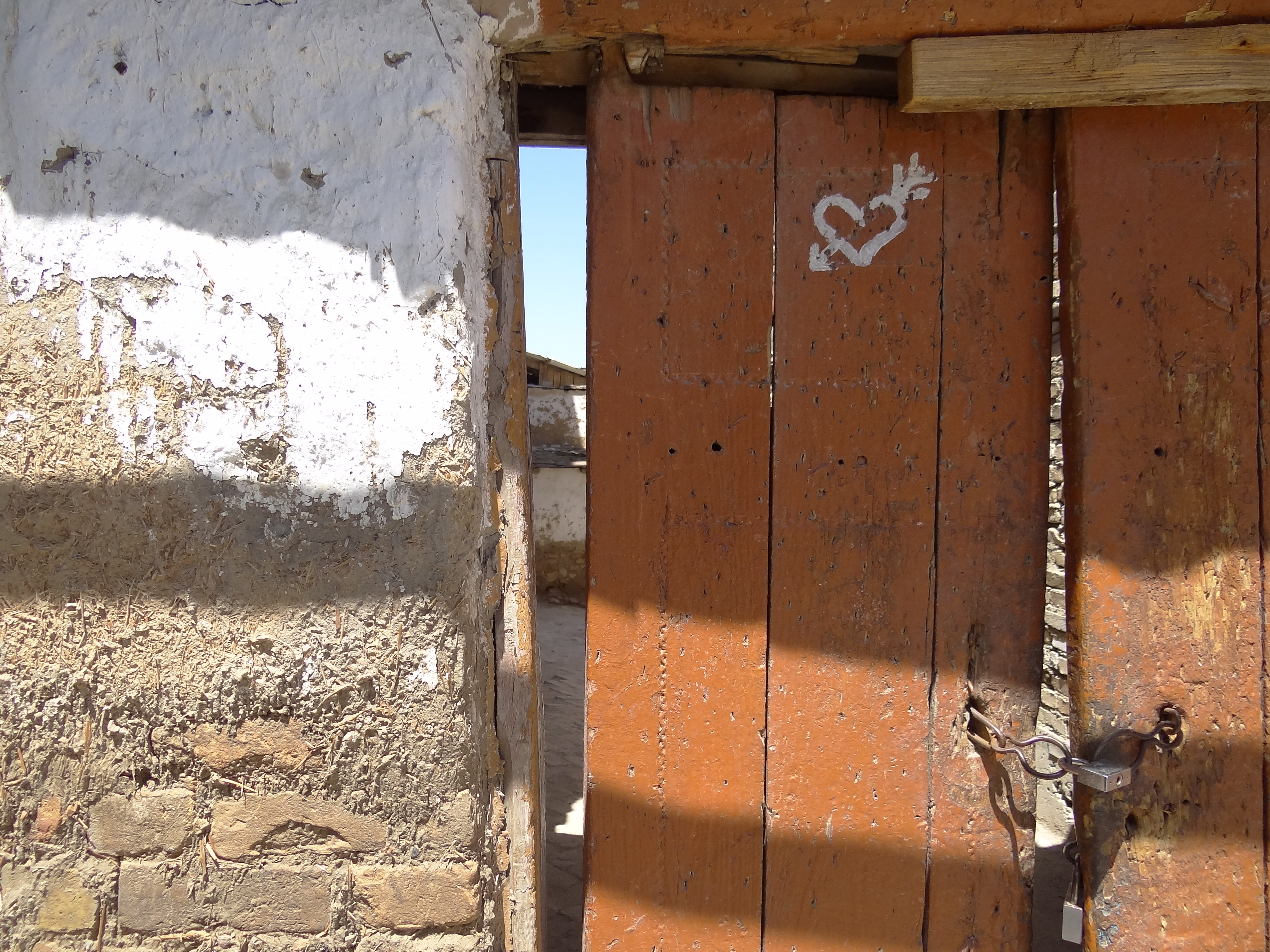 Facade in Old City (Jewish Quarter) - Samarkand - Uzbekistan - 01